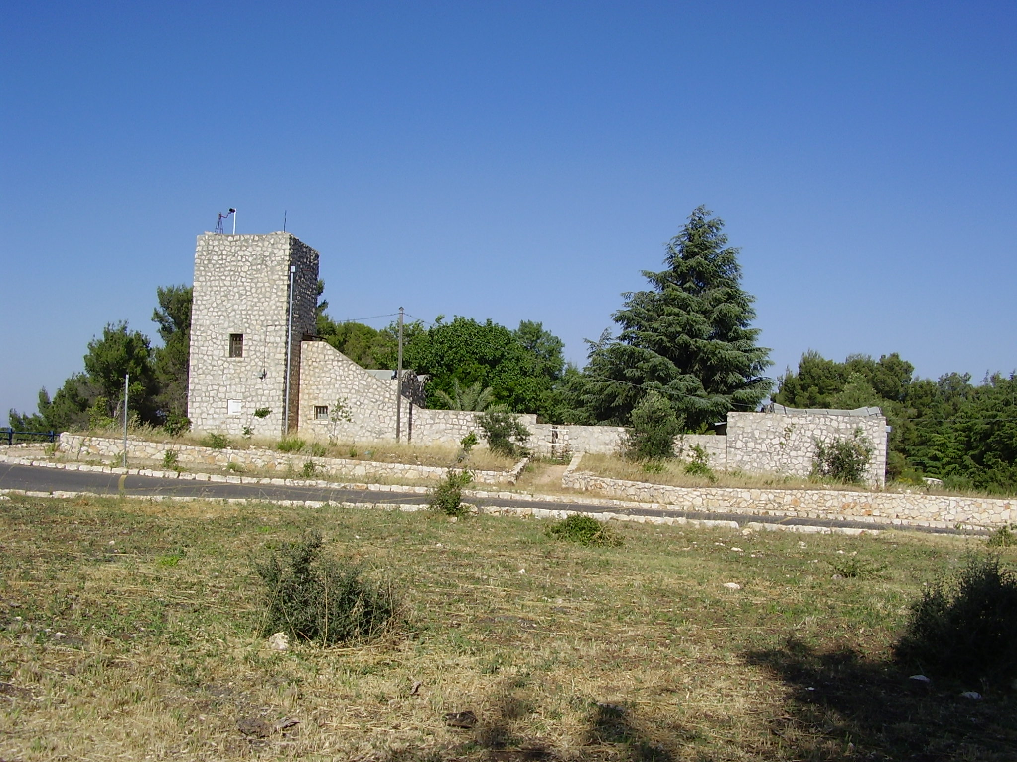 birya fortress, upper galilee